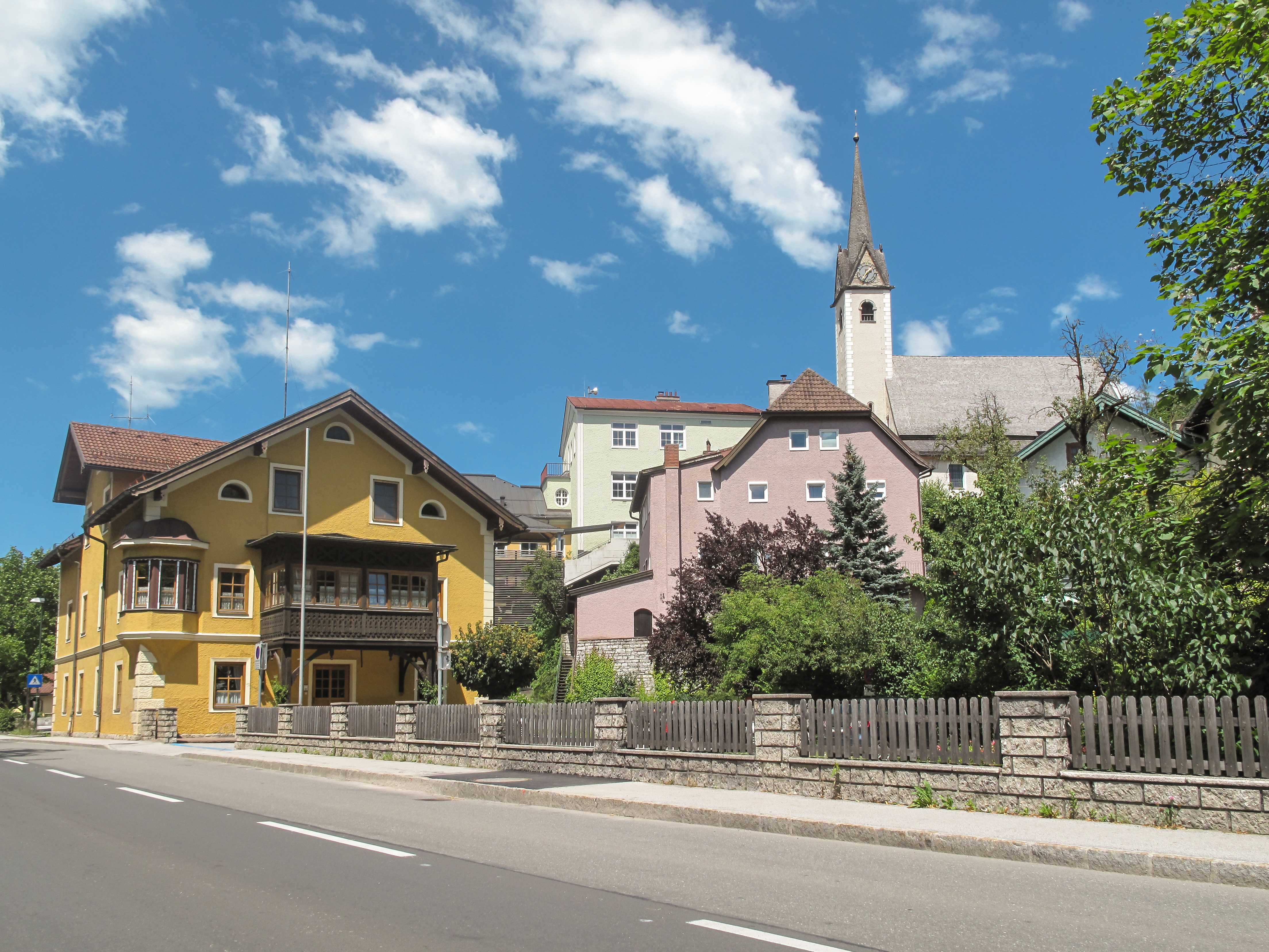 Golling an der Salzach, church in a street